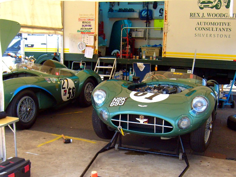 Aston Martin DBR1/4 (indicated by its license "NSK 693") next to an Aston Martin DB3S at Silverstone Classic 2008.